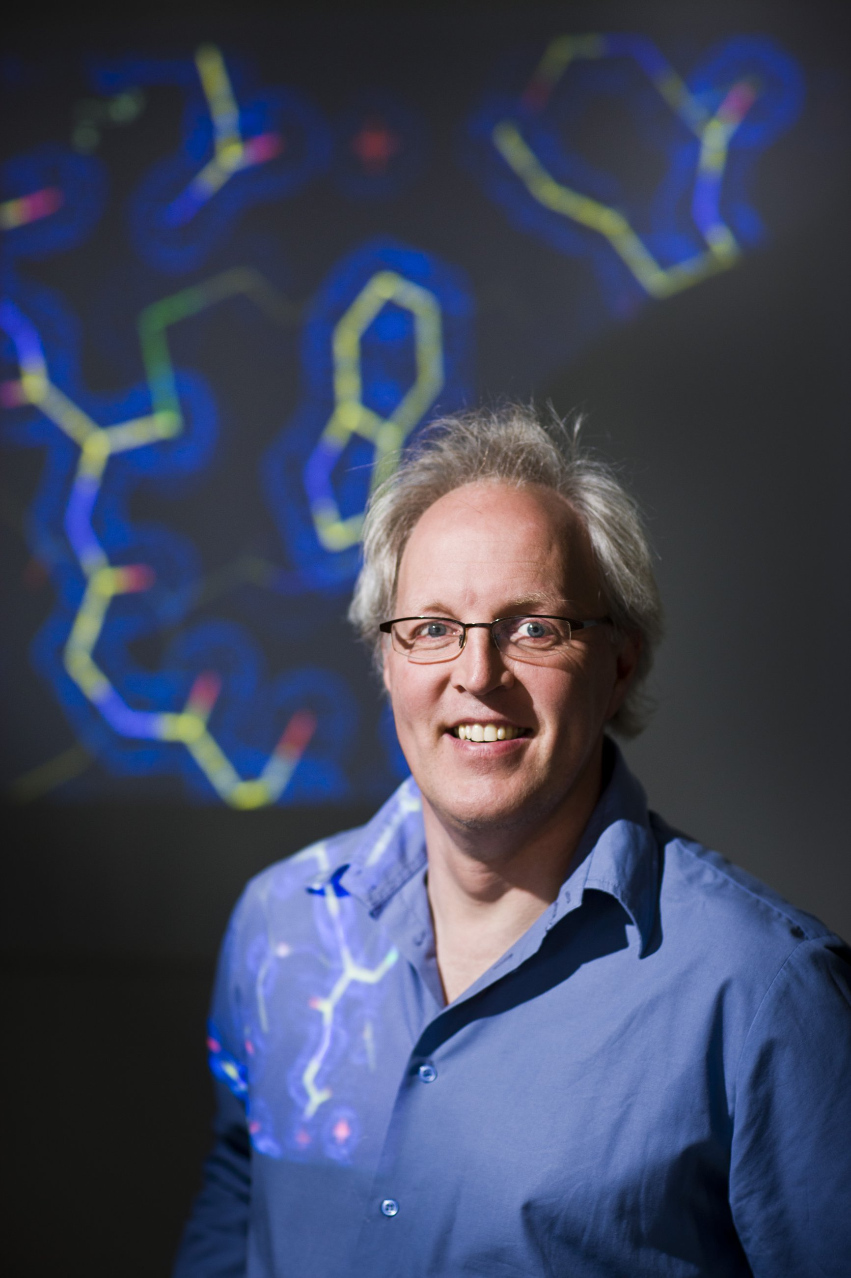 Dutch protein crystallographer Piet Gros (2010)